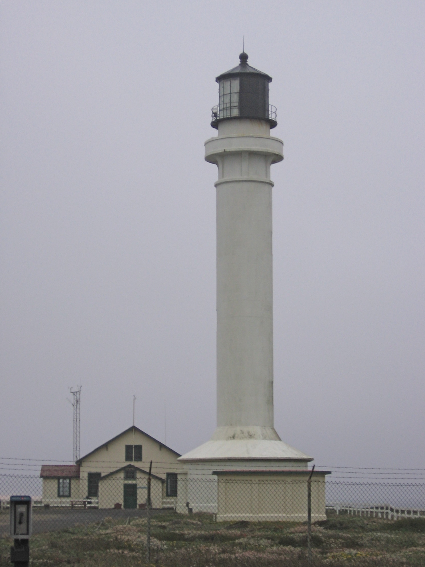 Light station, Point Arena, CA, USA